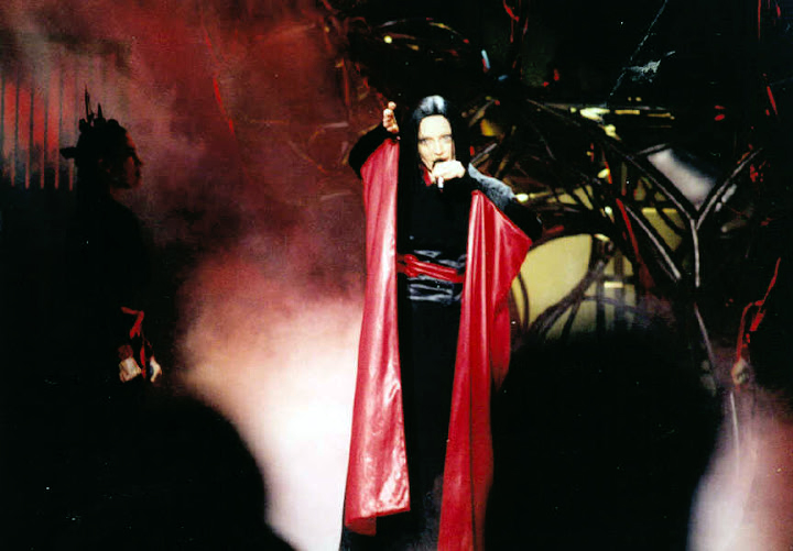 Photo taken at the concert